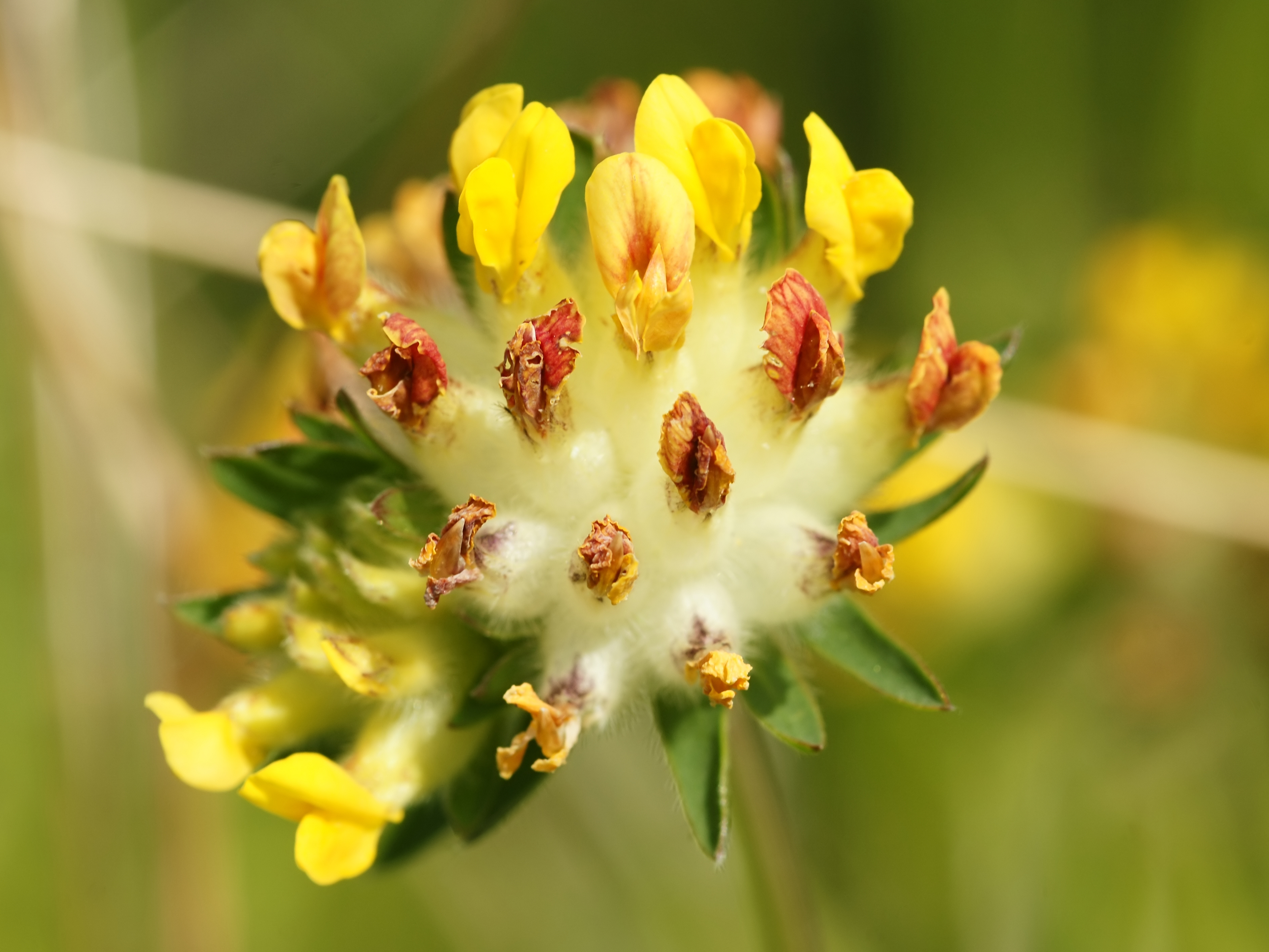 Common kidneyvetch close to Nismes, Belgium